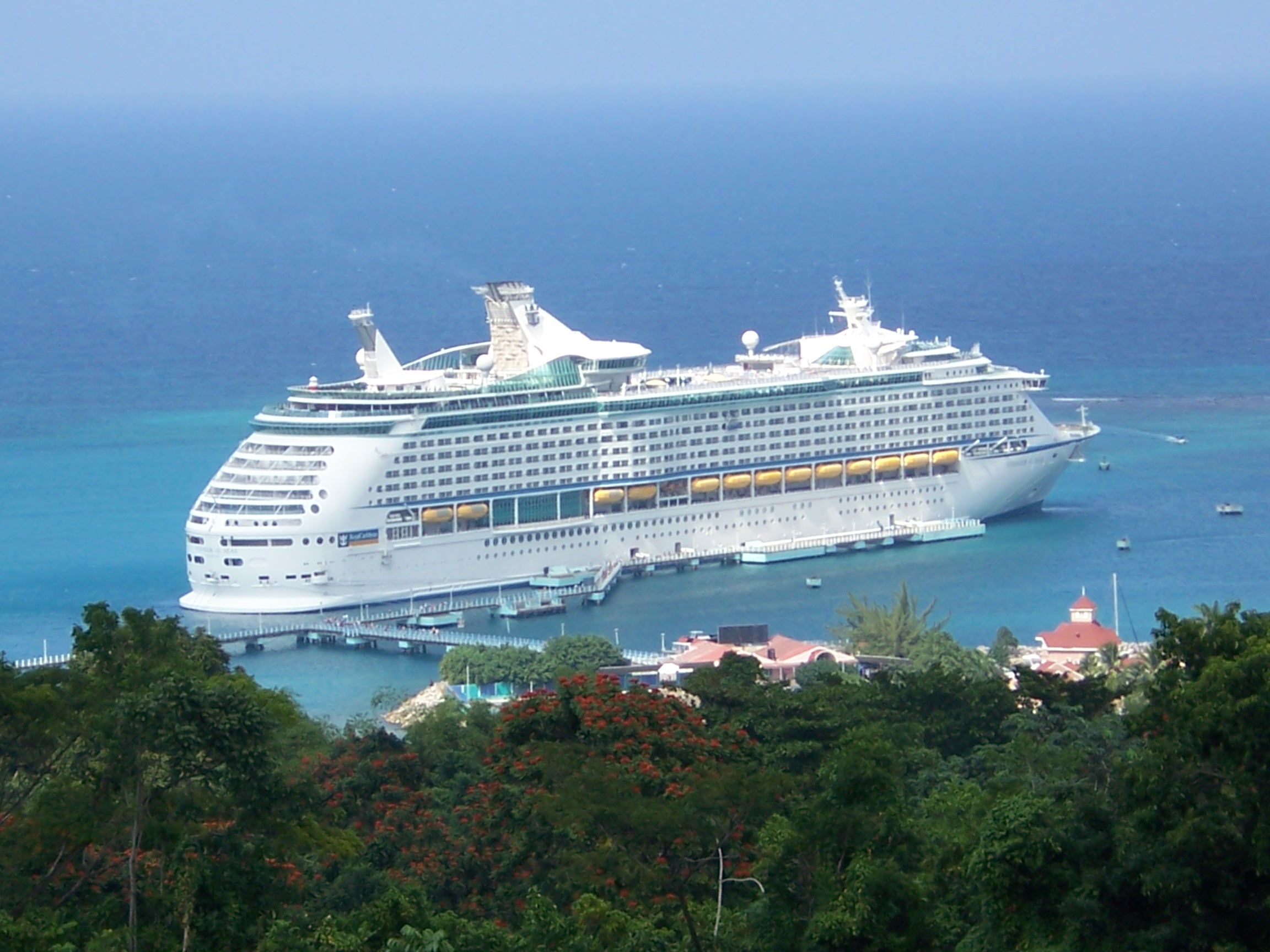 Voyager of the Seas in Ocho Rios, Jamaica